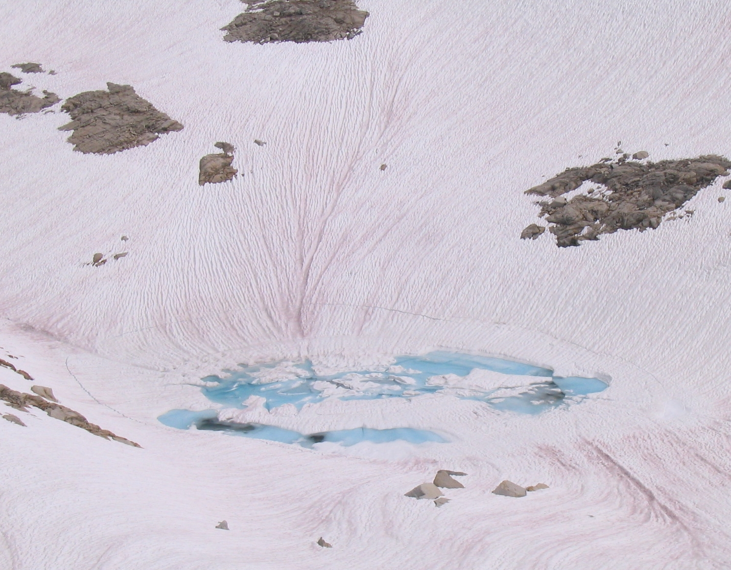 right pic